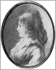 Maximiliane Euphrosine de La Roche 1756-1793, spouse of Peter Anton Brentano 1735-1797, daughter of Sophie von La Roche 1730-1807, mother of (among others) Clemens Brentano 1778-1842 and Bettina von Arnim 1785-1859